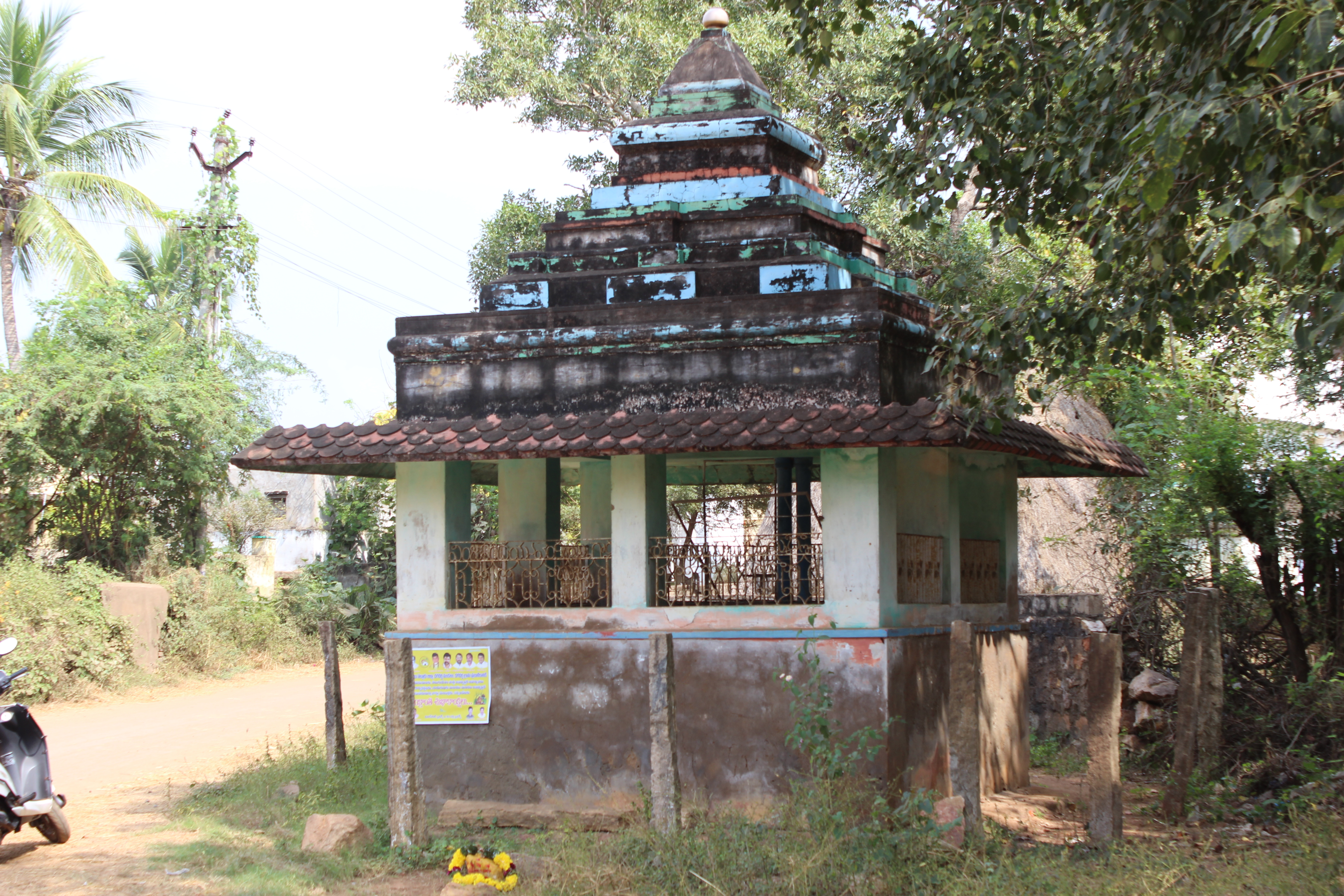 dagadarti temples